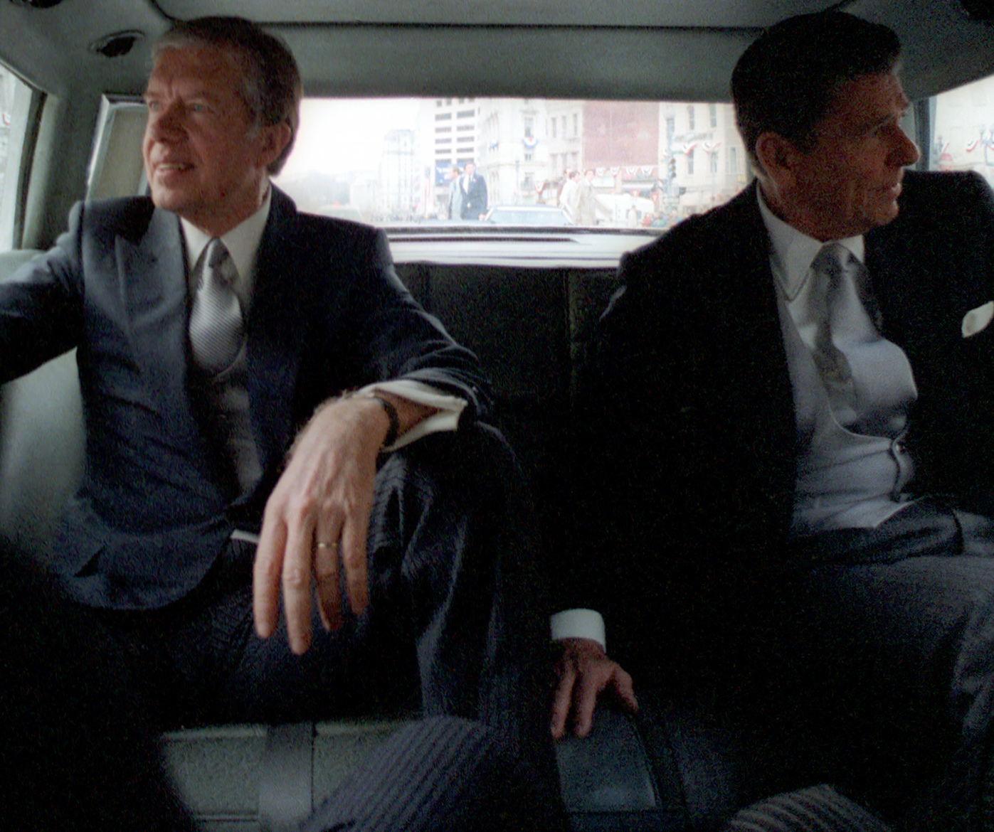 President Elect Ronald Reagan and President Jimmy Carter Ride in the Limousine to the United States Capitol for the Inaugural Ceremony in Washington DC, 1/20/1981